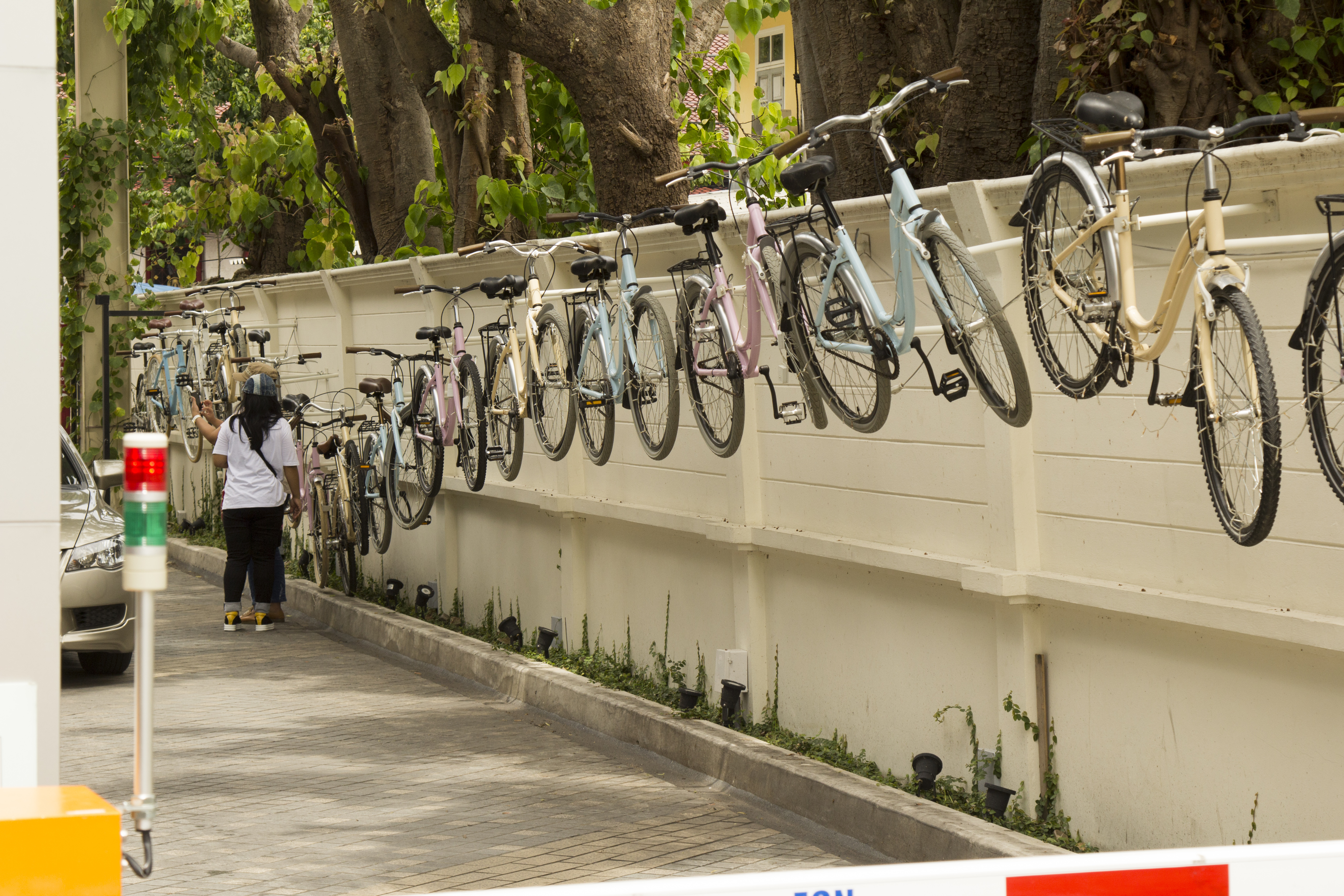 Thailand 2015